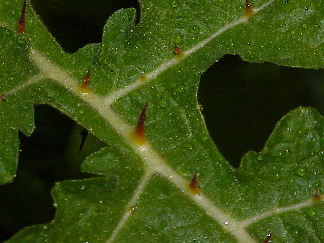 Species: Solanum sisymbriifolium Family: Solanaceae Image No. 1